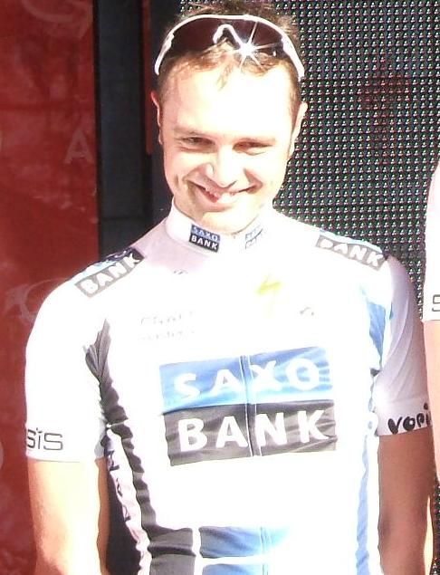 Named cyclist at the en:2009 Tour Down Under team presentation